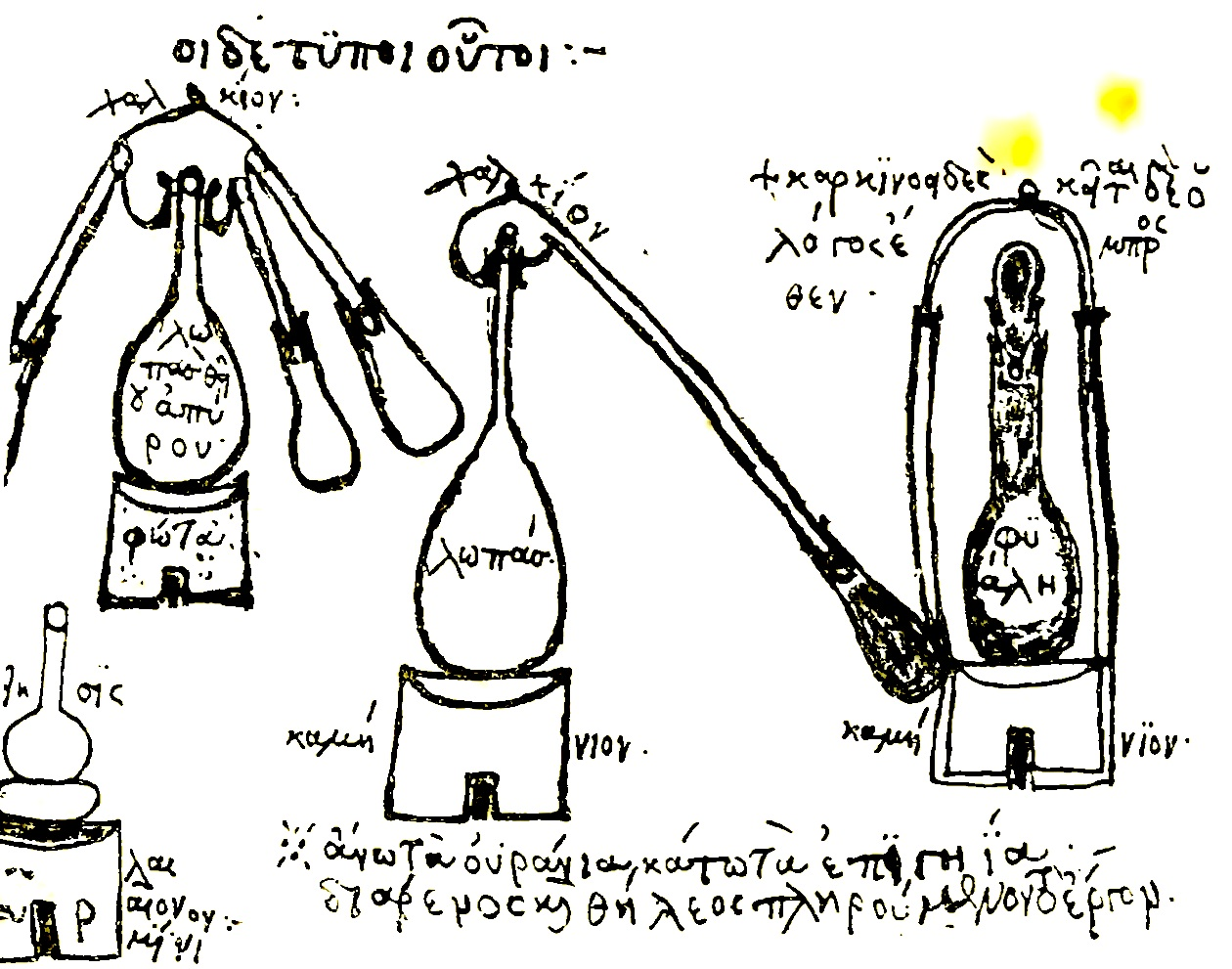 Byzantine Greek manuscript's illustration of Zosimos' distillation equipment